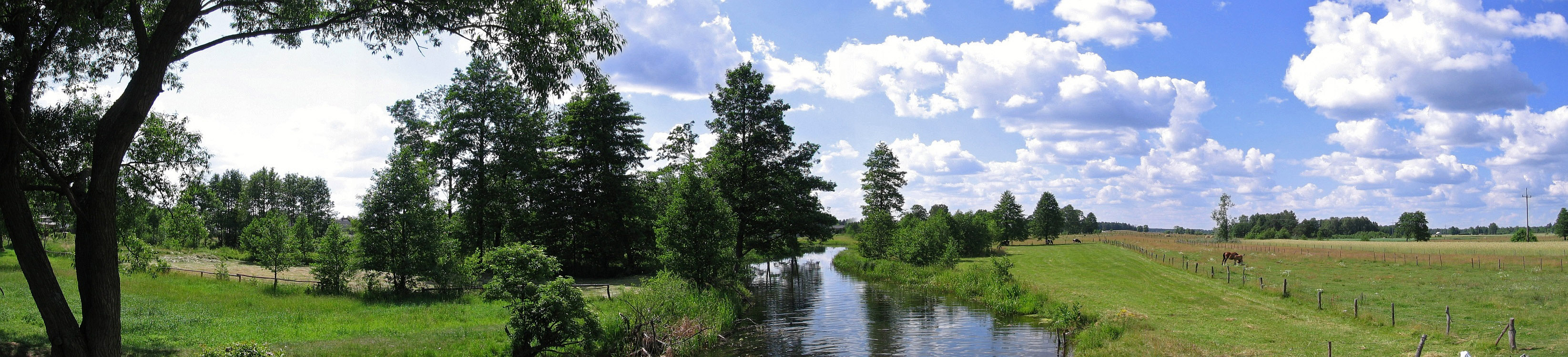 Łęg Starościński-Walery near Ostrołęka in Poland, panorama.